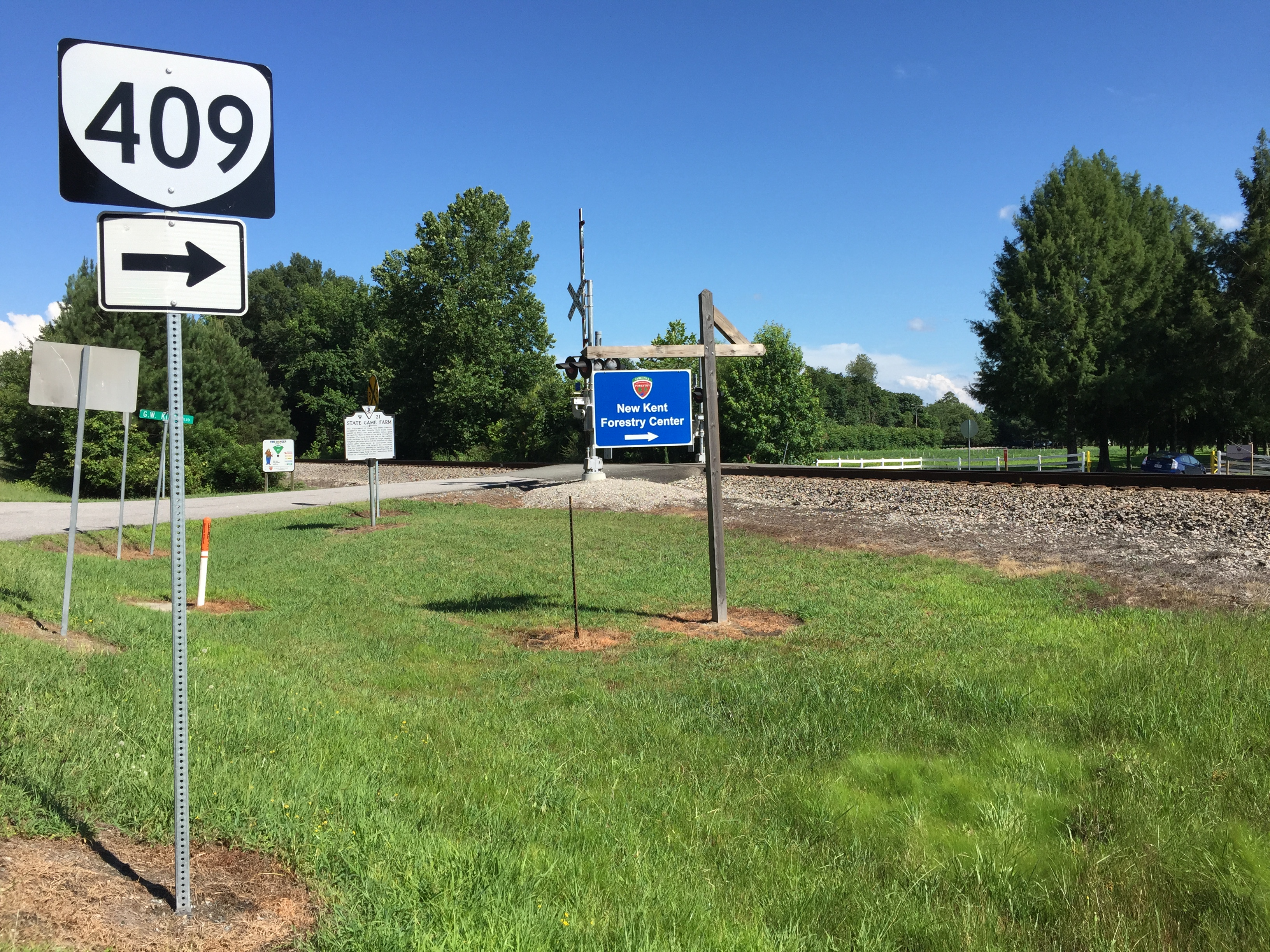 View south along Virginia State Route 409 (G W King Boulevard) at U.S. Route 60 (Pocahontas Trail) at the New Kent Forestry Center in Windsor Shades, New Kent County, Virginia